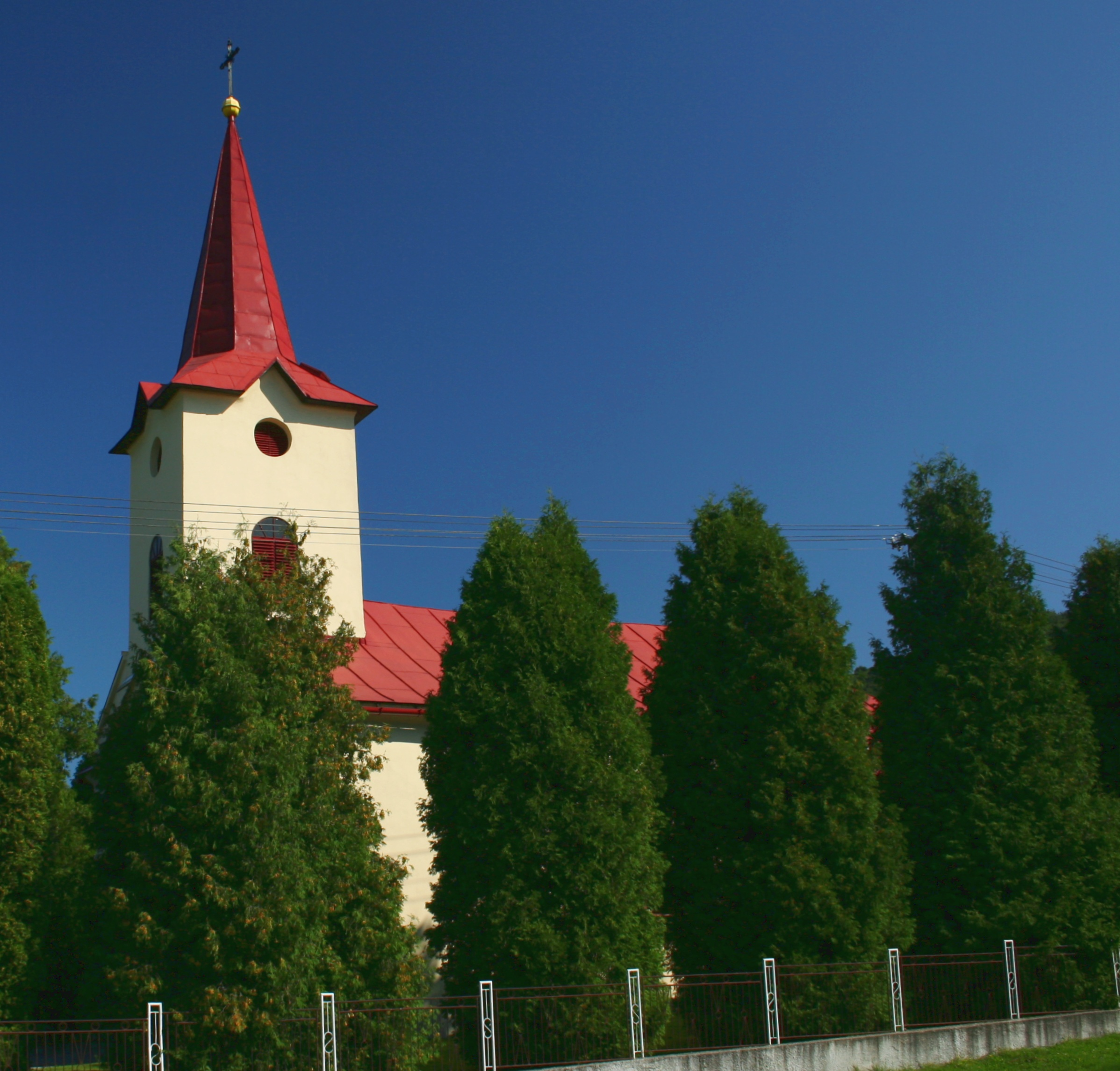 church in Turany nad Ondavou, Slovakia